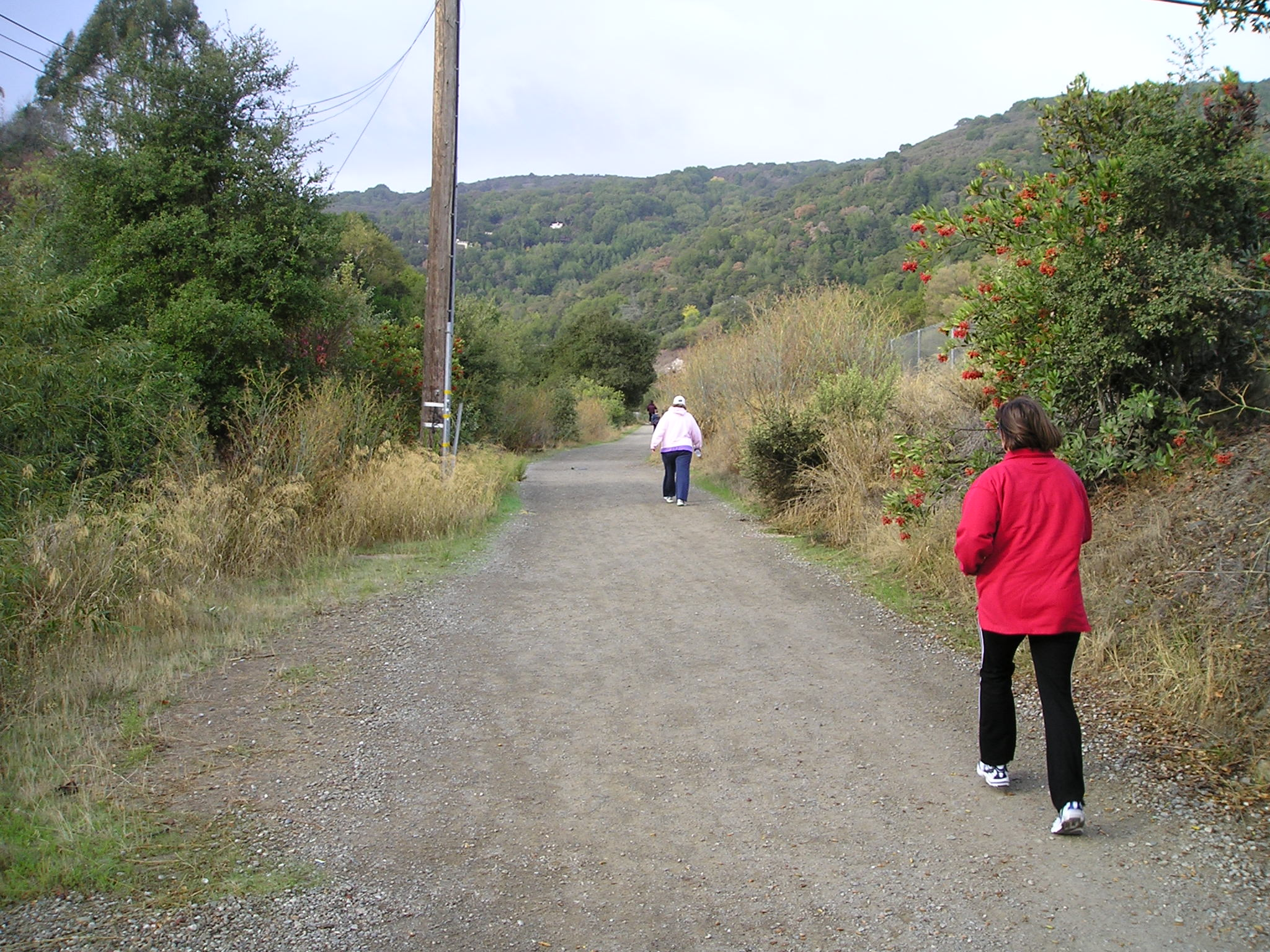 Hikers on Los Gatos Creek Trail above downtown